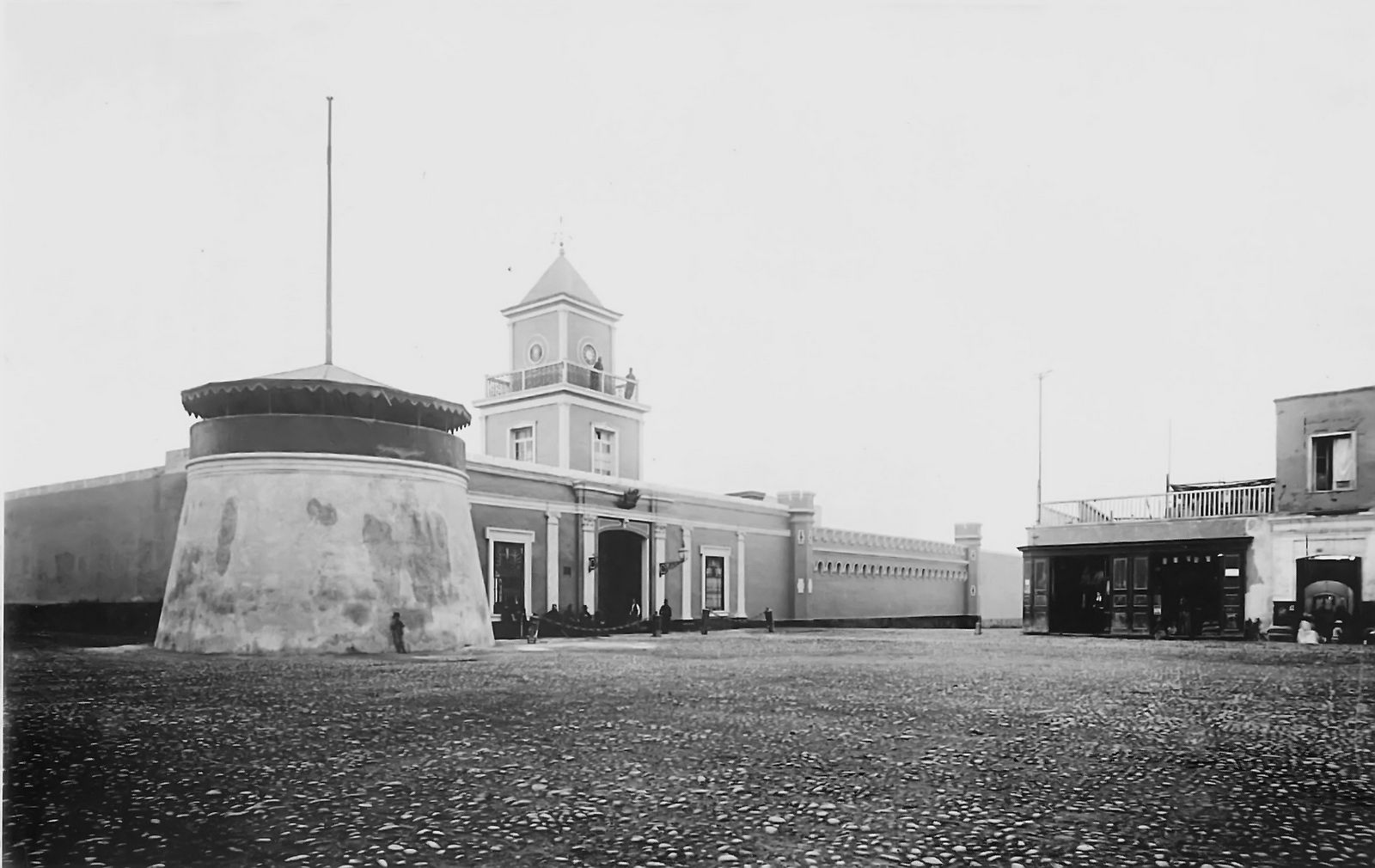 Fort Saint Catherine in Lima - Perú